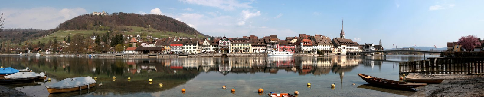 Panoramic view of Stein am Rhein[SH] Switzerland